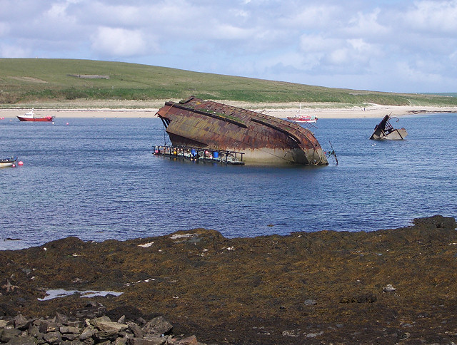 Blockship in the Weddell Bay from Burray with Glimps Holm in the background, Orkneys, Scotland